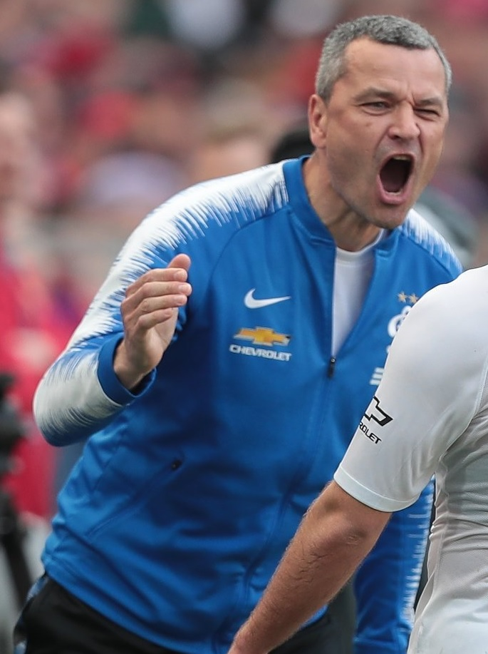 Yuriy Nikiforov coaching FC Dynamo Moscow in a game against PFC CSKA Moscow.